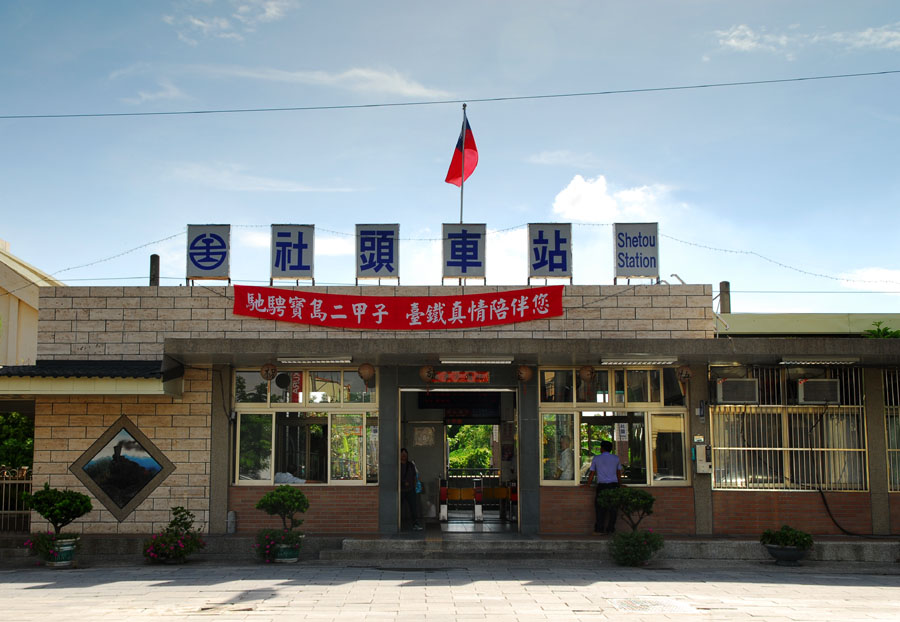 YongJing Station is a local train station of Taiwan's Western main rail line. It's the main station of SheTou Township, ChangHua County.